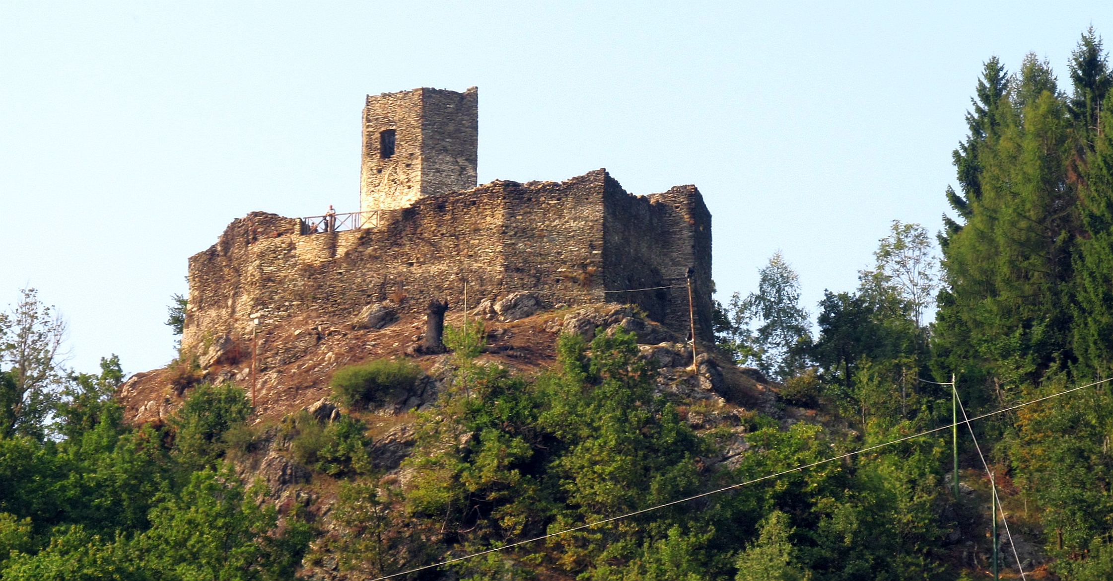 Vernante (CN, Italy): the castle as seen from the train station